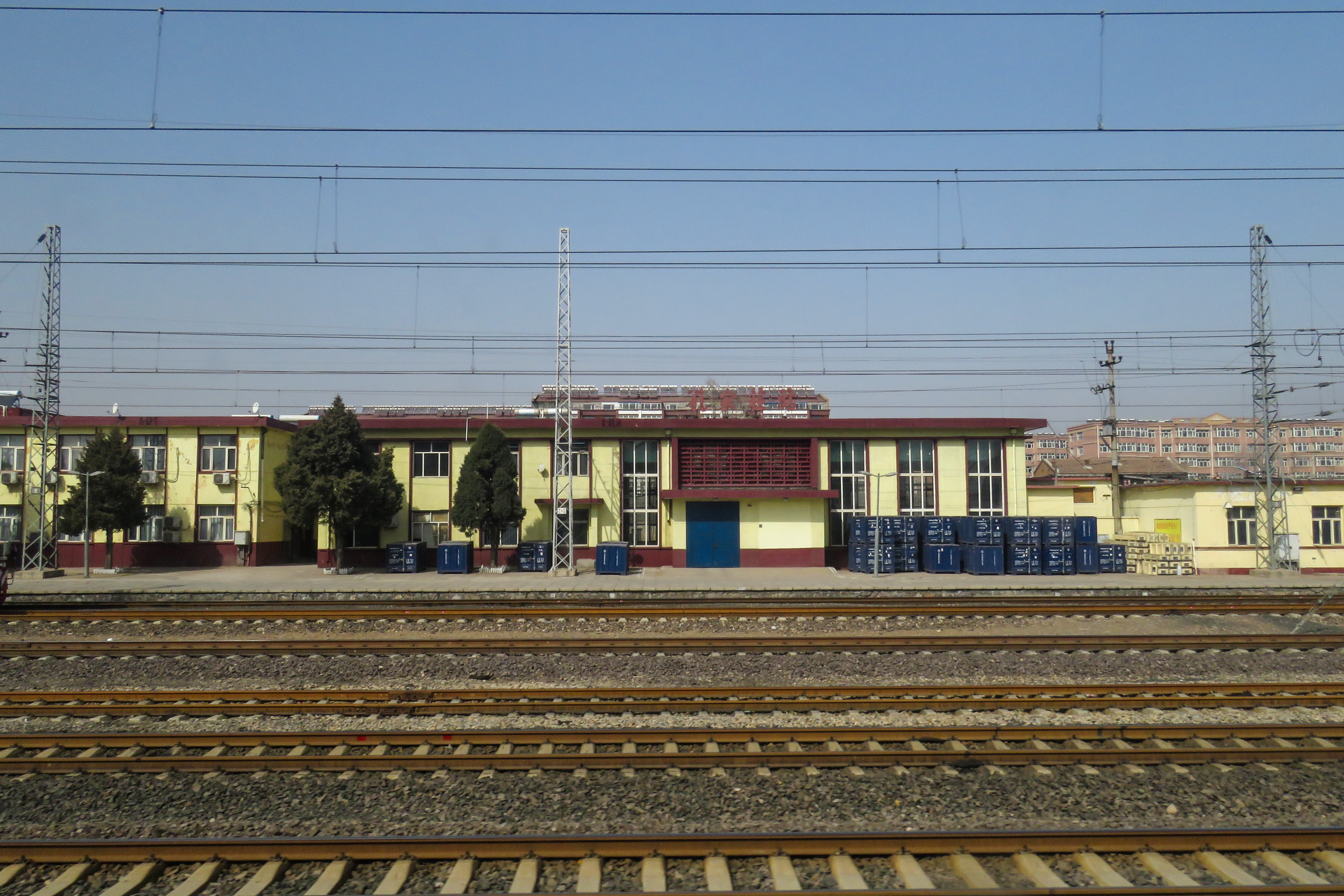 Start of something new...